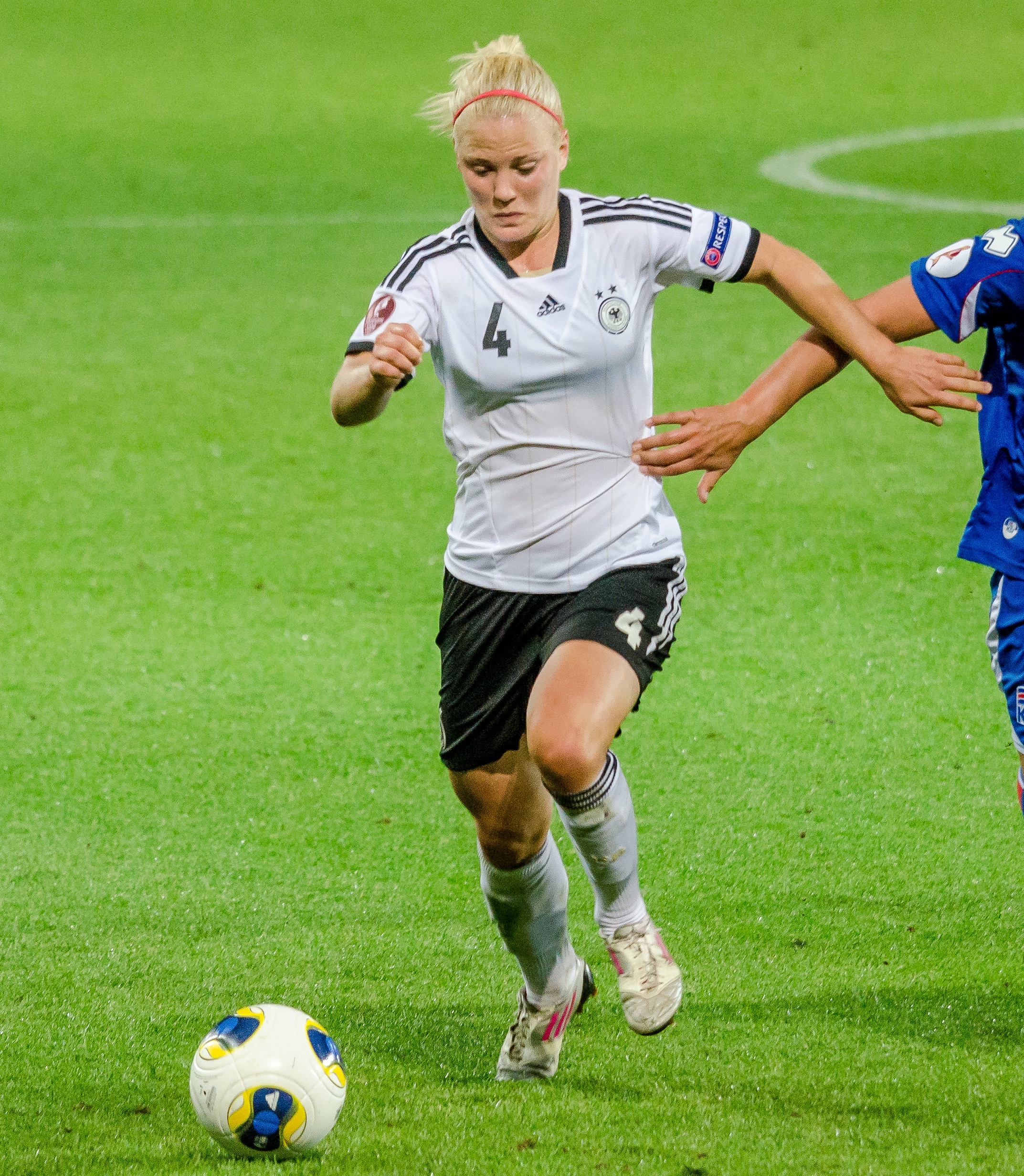 German football defender Leonie Maier playing a Group stage game against Iceland in the UEFA Women's Euro 2013 at Myresjöhus Arena in Växjö.